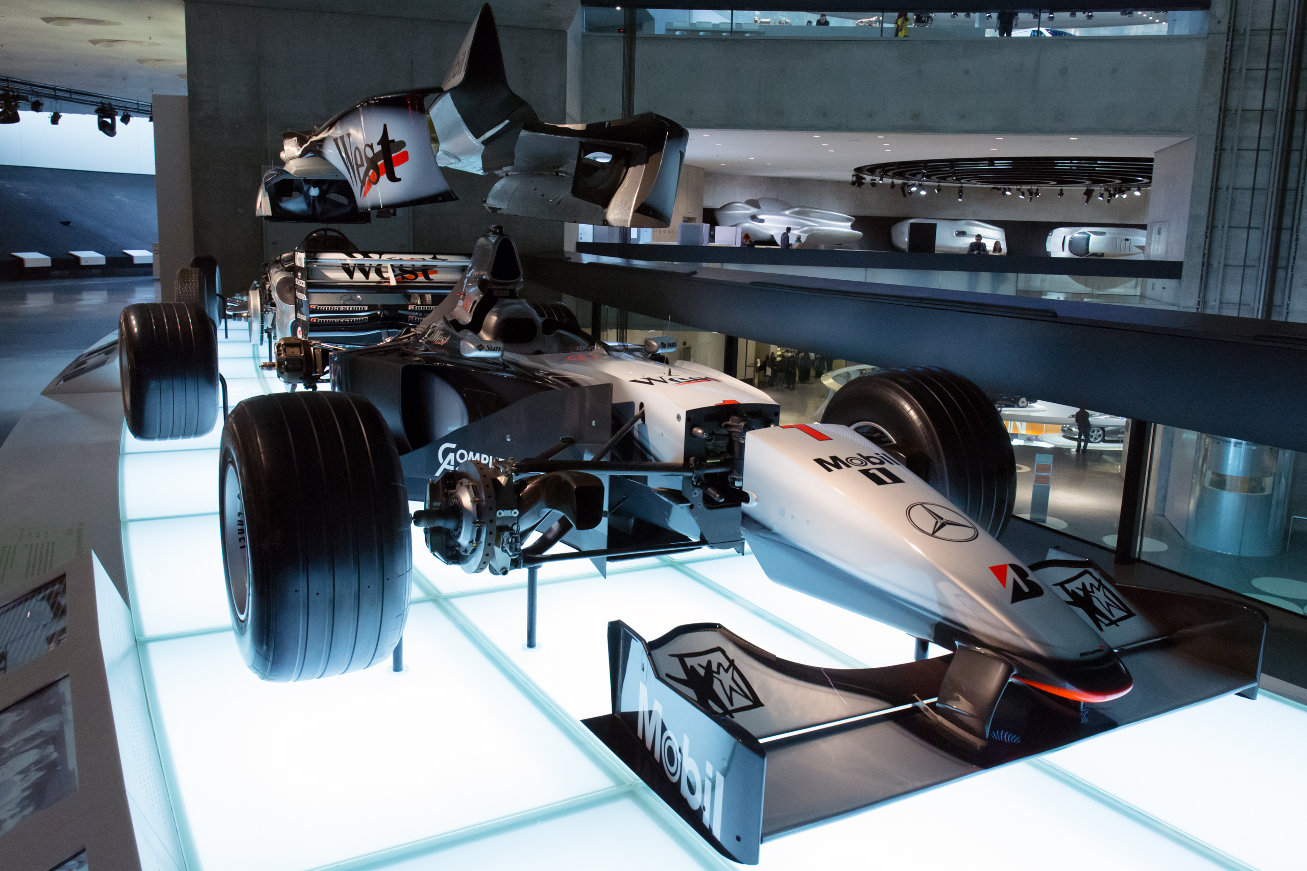 1999 McLaren MP4/14 (exploded view)